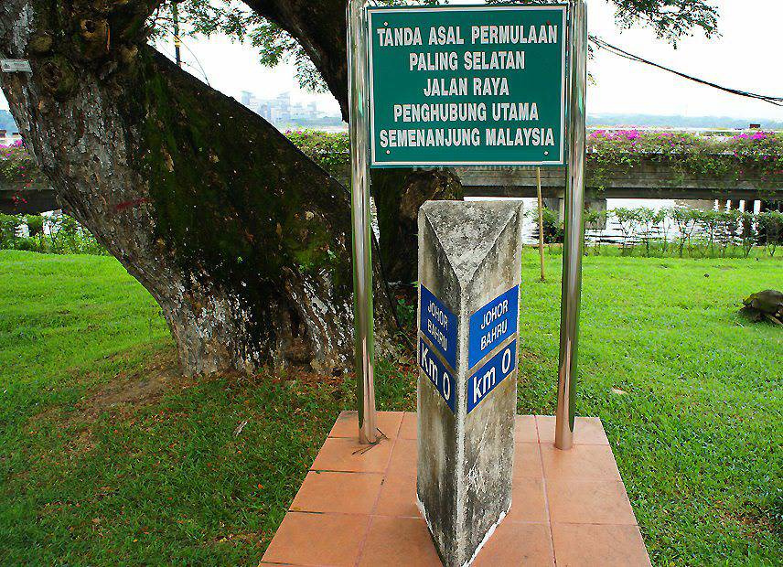 Kilometre Zero of Peninsular Malaysia at Johor Bahru, MalaysiaBahasa Melayu: Kilometer Sifar Semenanjung Malaysia di Johor Bahru, Malaysia